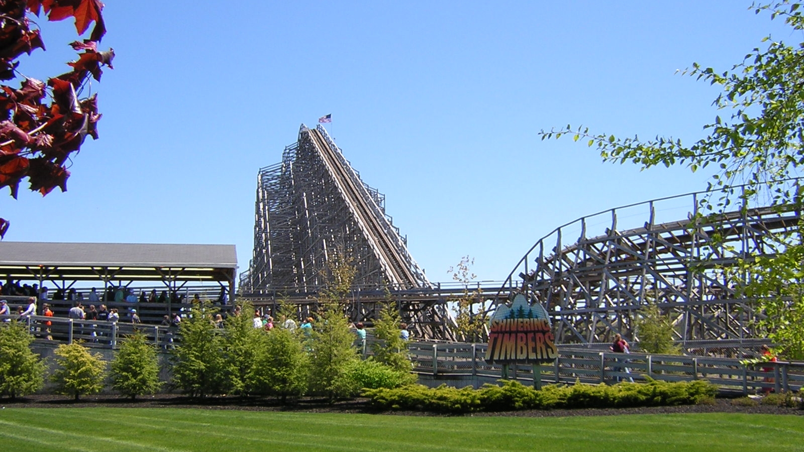 Shivering Timbers, a Custom Coasters wooden roller coaster at Michigan's Adventure metro Muskegon area.